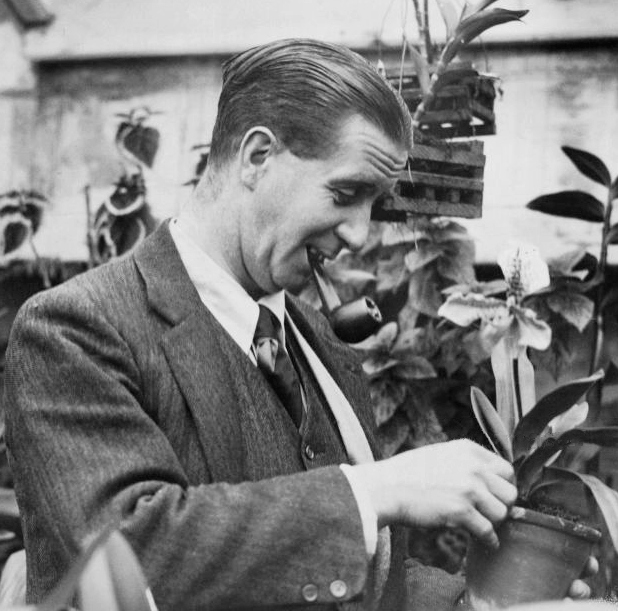 Former Essex and England cricketer JWHT Douglas tending to his orchids at his home in Theydon Bois, Essex, circa May 1926